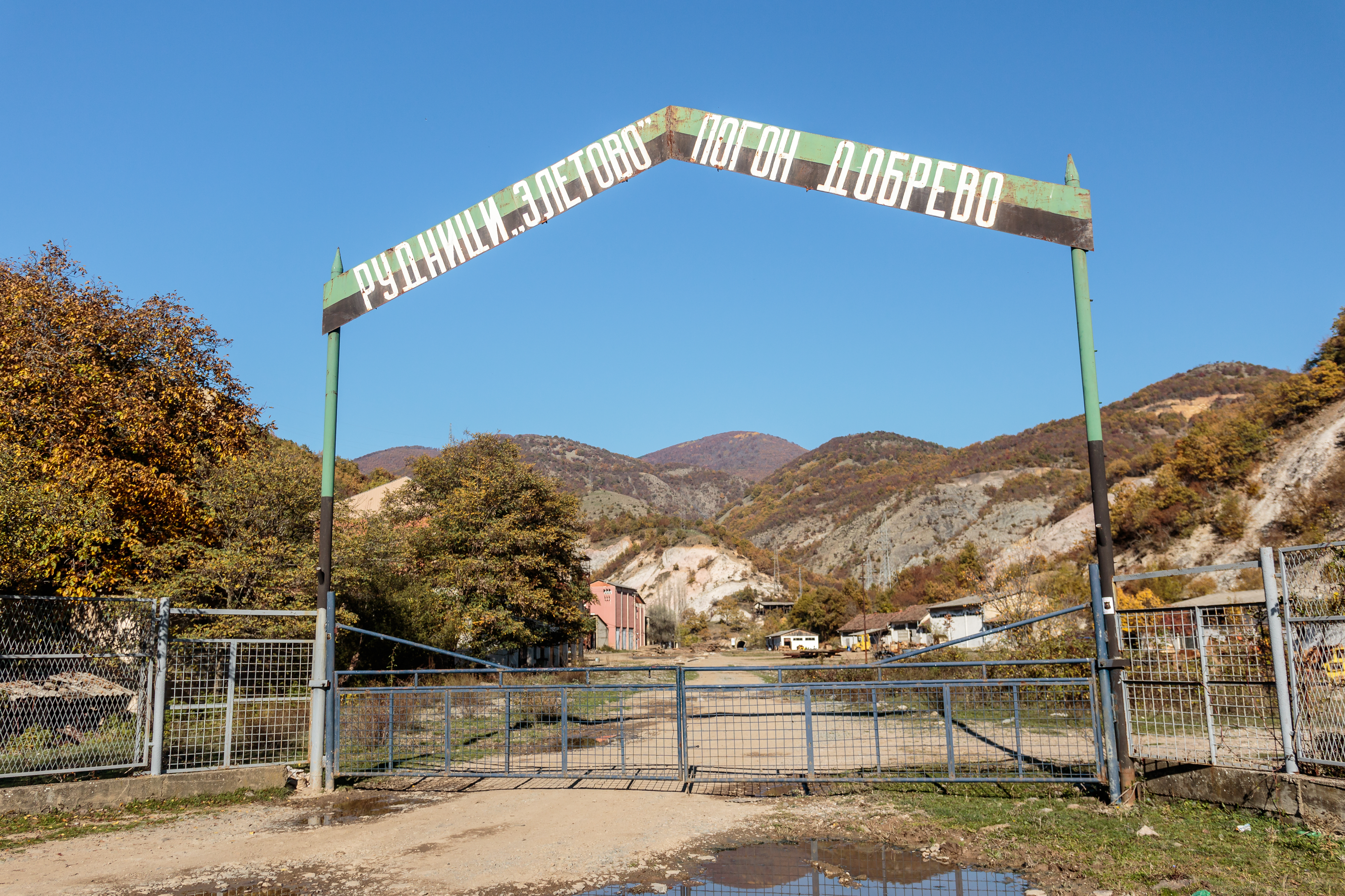 The opening gate of the Dobrevo mine in the eponymous village, Zletovo-Probištip Region, Macedonia